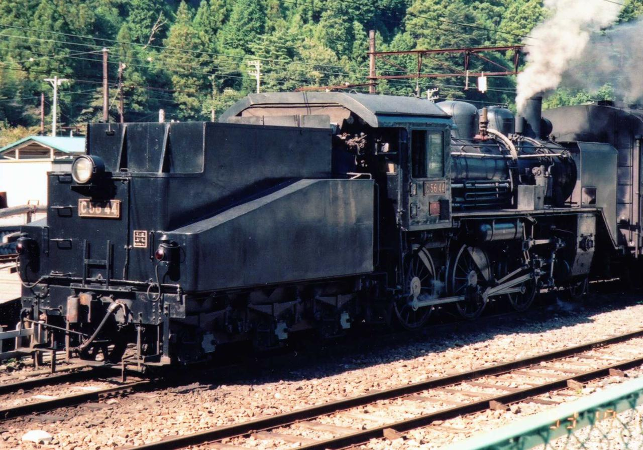 Oigawa Railway type C56. 後方視界を確保するためテンダがカットされている at Senzu Sta. 1993.10.10 Photo by Cassiopeia_sweet.